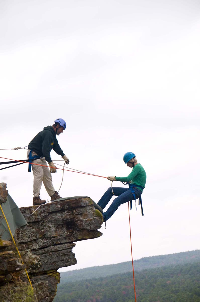 Rappelling weekend with the Ventures Crews of the Indian Nations Council at Robbers Cave in southeast Oklahoma. Close to 175 kids and adults showed up. I went down to play emergency medic and ended up shooting more pictures than doing anything else. Between myself and the other EMT - we bandaged one adults cut finger and applied a heat pack to one adults sore leg.